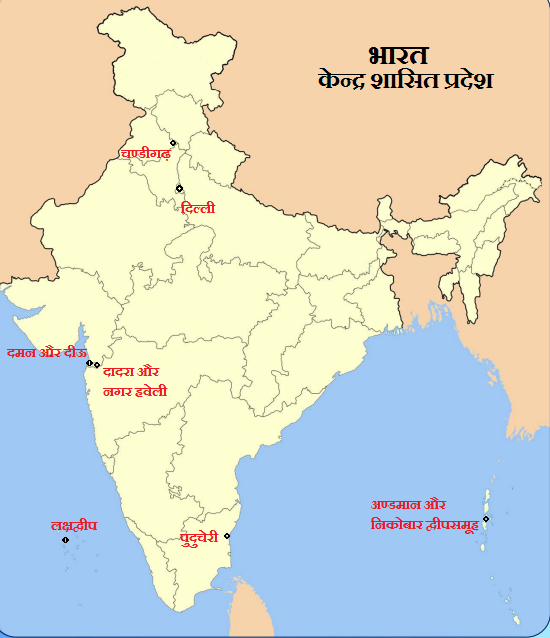 India union territories